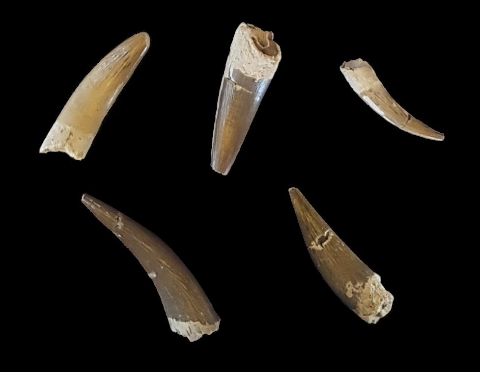 Teeth of plesiosaur Scanisaurus sp., excavated in the Kristianstad Basin and exhibited at the "Havsdrakarnas hus" exhibition in Bromölla, Sweden. Background digitally replaced with black color.